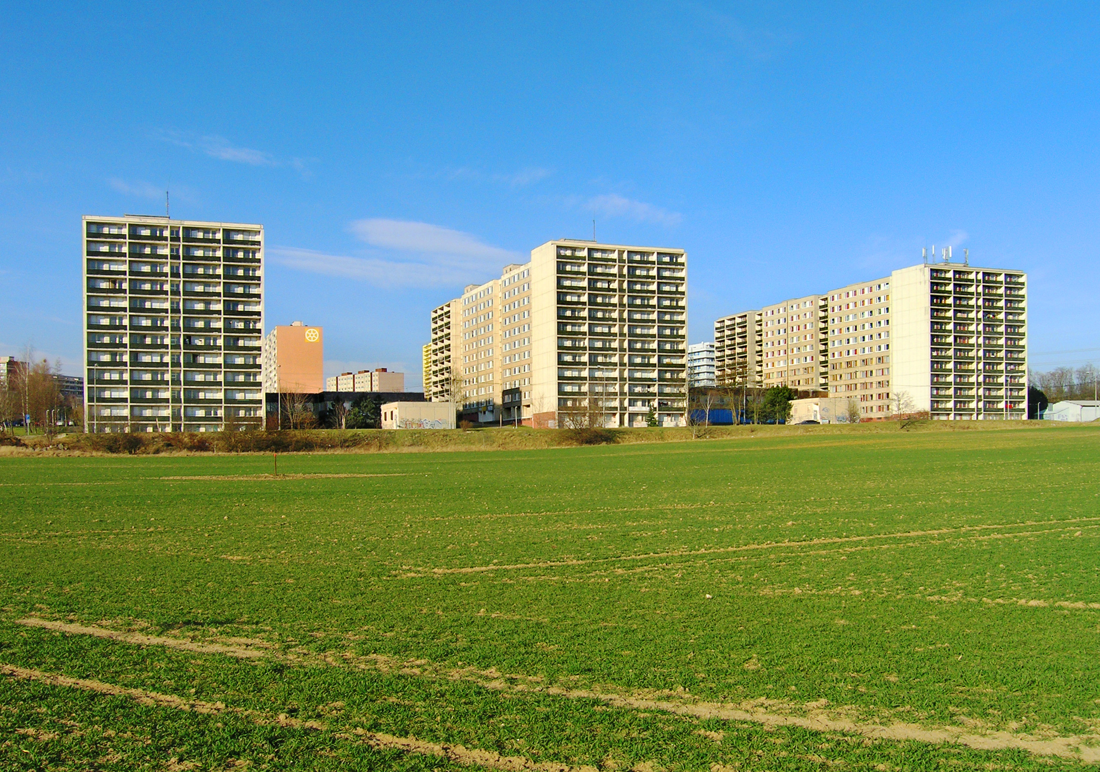 Students housing in Kunratice, Prague